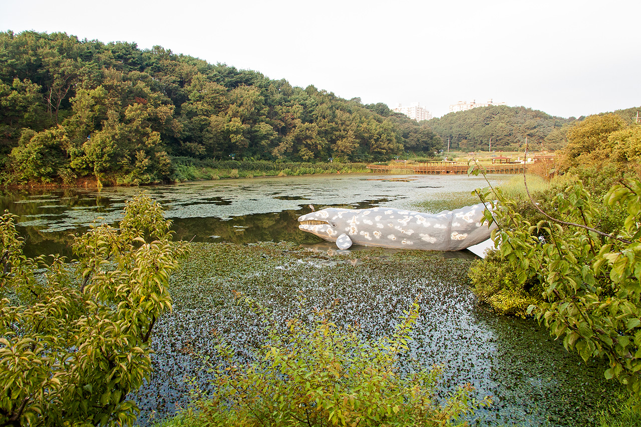 Whale at Seonam Lake Park, Ulsan